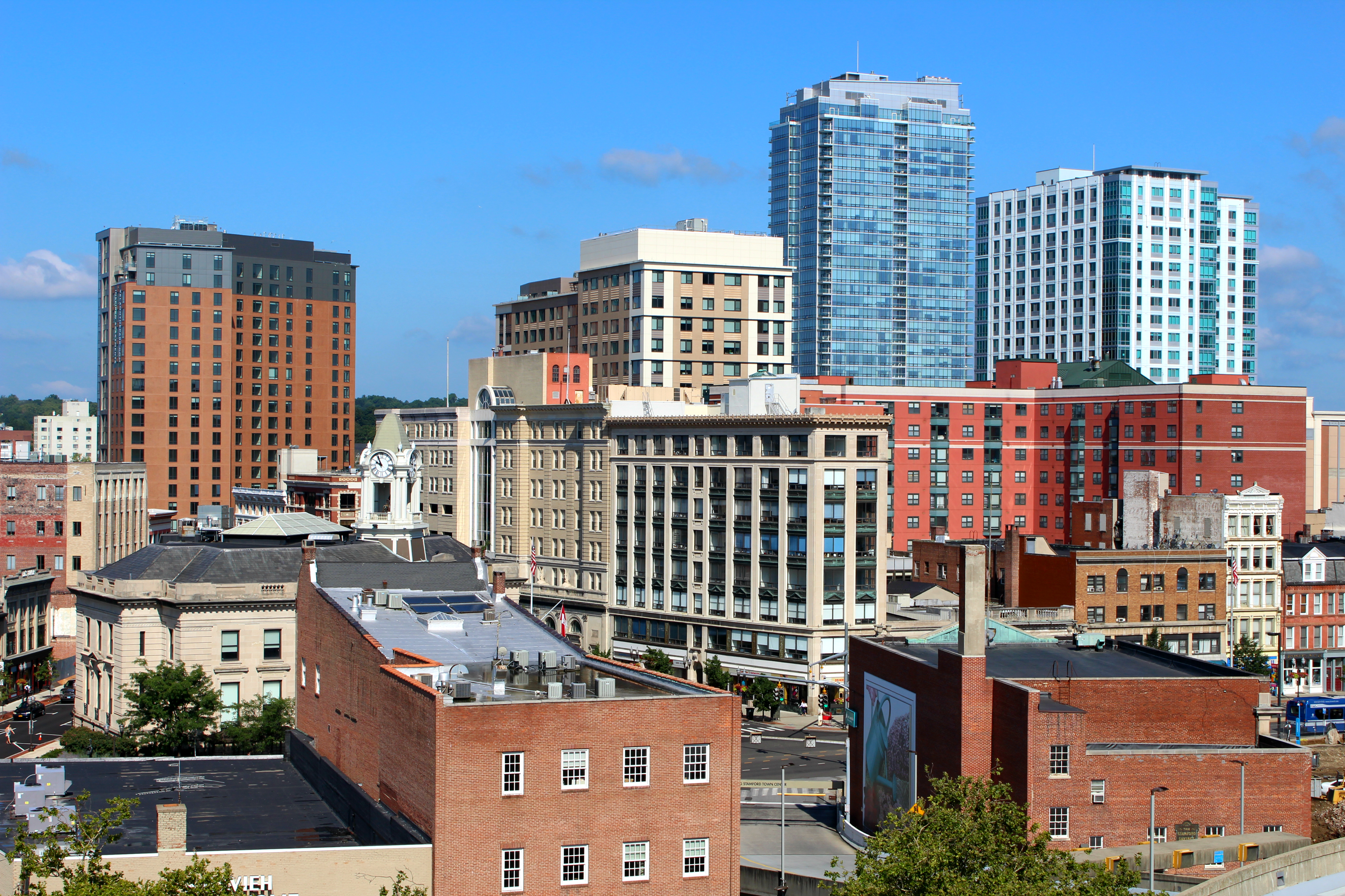 Skyline of Stamford, Connecticut as seen looking west from the rooftop of the Stamford Town Center Mall.